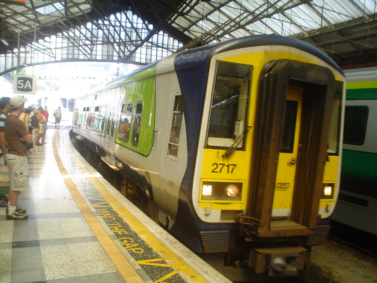 Cork Kent Train Station